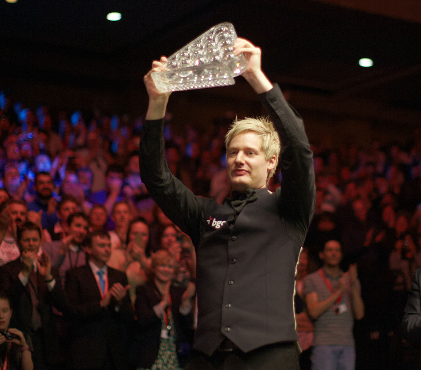 Neil Robertson at Masters in London, 2012